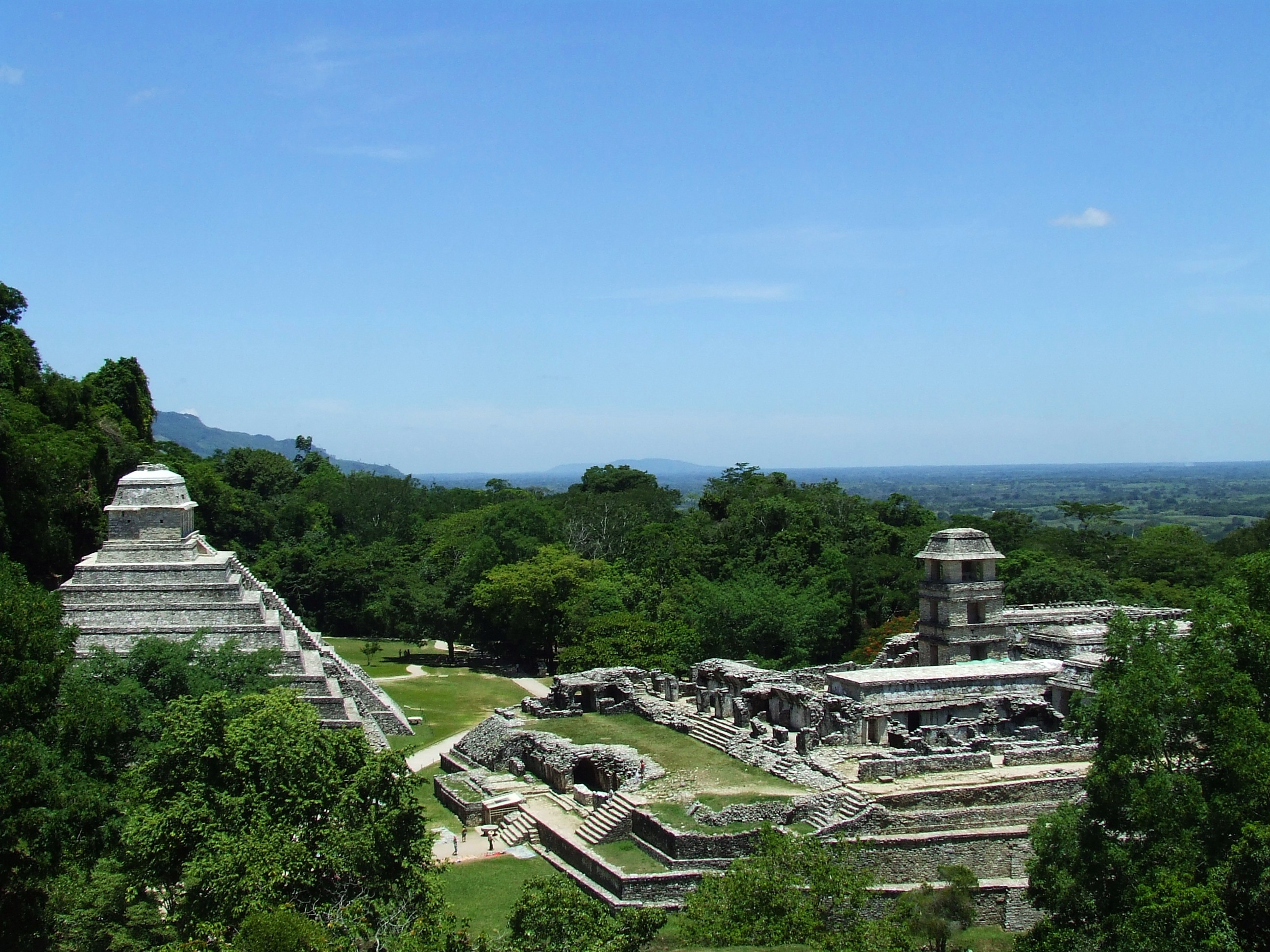 Palenque